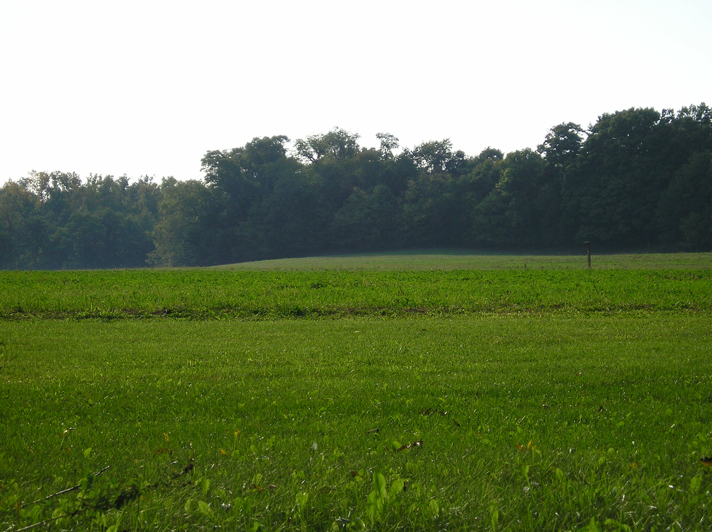 Oxford Township, Erie County, Ohio.